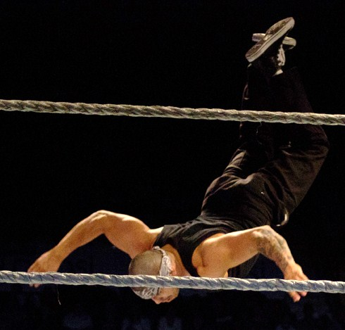 Hunico performing Falling Star (senton bomb) at a WWE SmackDown live event in Montgomery, Alabama on January 7, 2012.